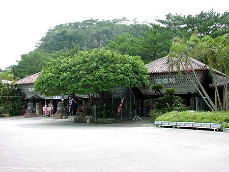 Ryukyu Mura